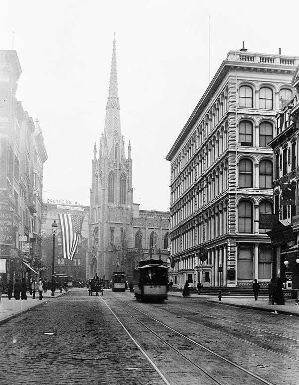 Grace Church, New York, on Broadway, photographed in 1900. The building on the right is the John Wanamaker's Store, formerly A.T. Stewart's Dry Goods Emporium. It burnt down in 1956 and a apartment building ws put up on the site.